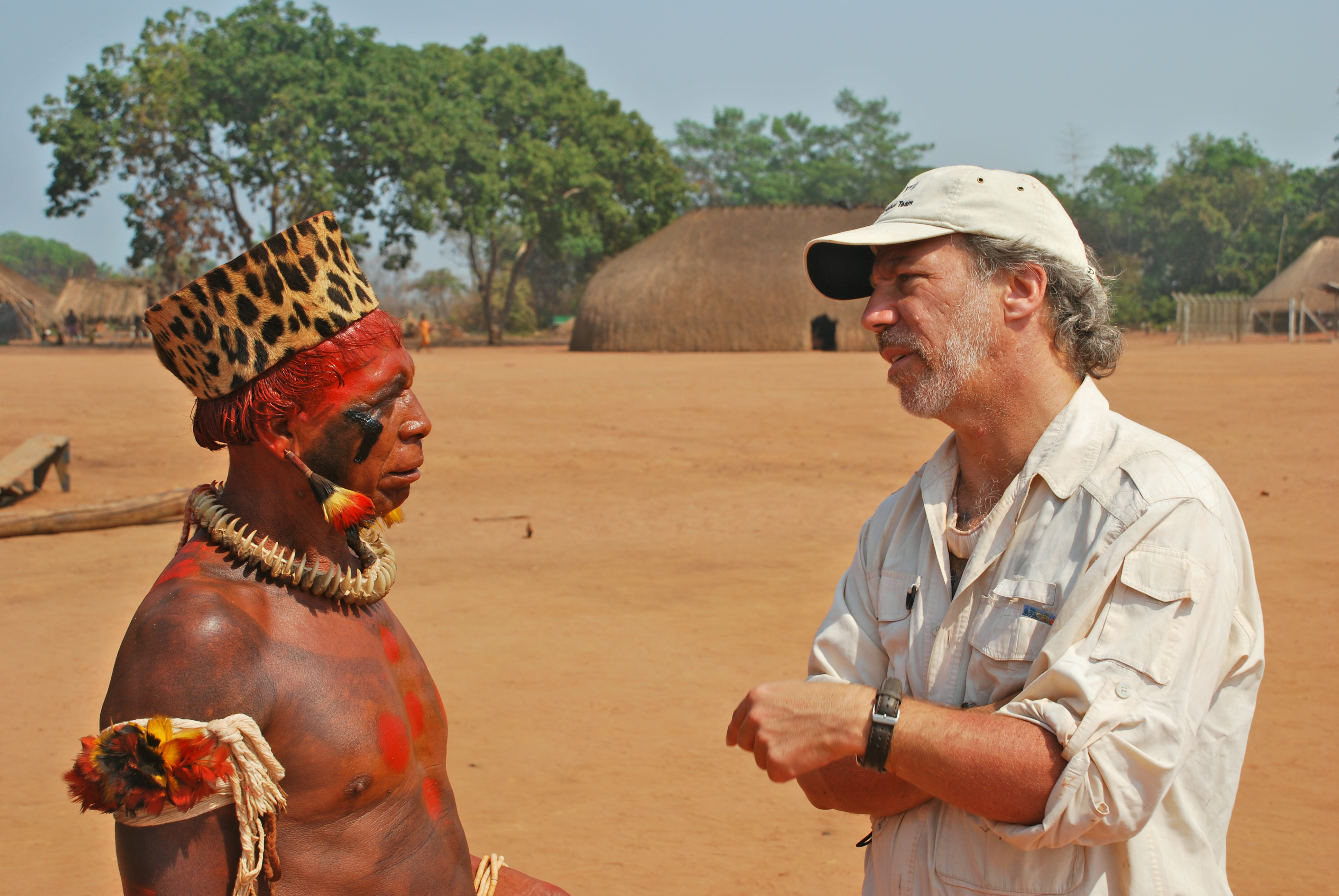 Two standing men. Photo taken in Brazilian Amazon